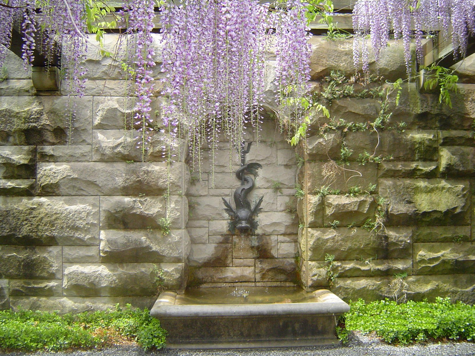 The "Walled Garden", with Wisteria and wall fountain — of the Biltmore Estate gardens. At Biltmore Estate, North Carolina.